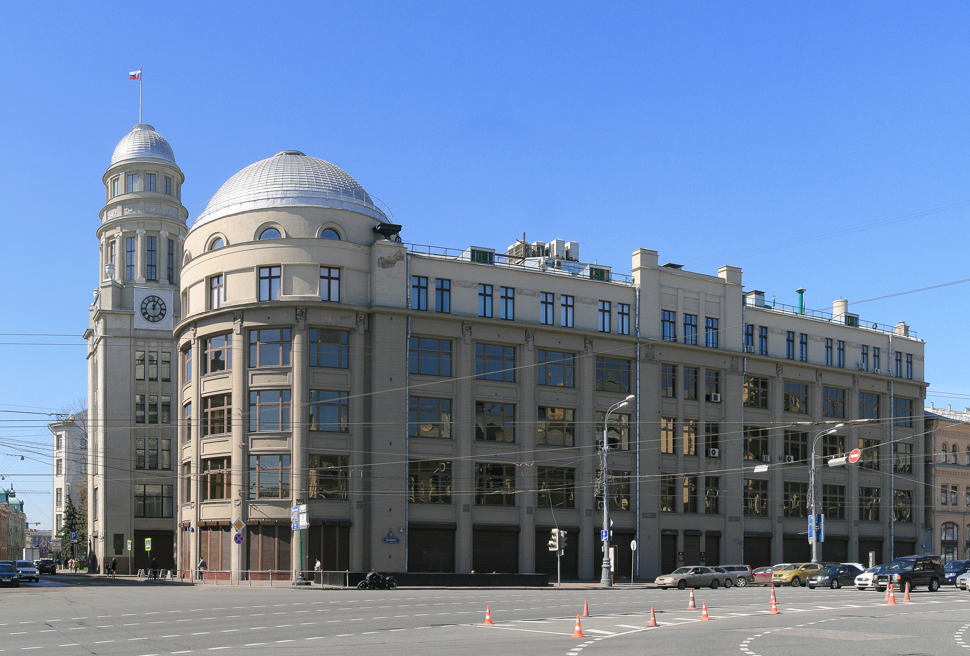 Former Northern Insurance building, Eastern section, Ilyinka 21-23, Moscow